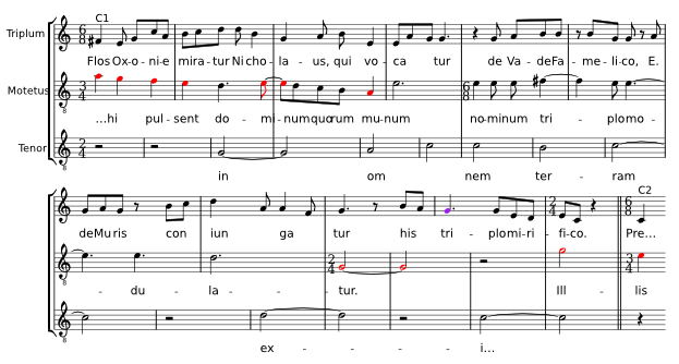 Part C1 (the first rhythmic unit of the third, diminished, repetition of the tenor) of the isorhythmic motet Sub arturo plebs - Fons citharizantium - In omnem terram, by Johannes Alanus, 14th century. After editions by M. Bent and U. Günther. See Wikipedia article for sources and discussion of notation details and differences in transcription.